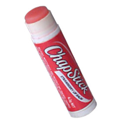 ChapStick. Released under GFDL.